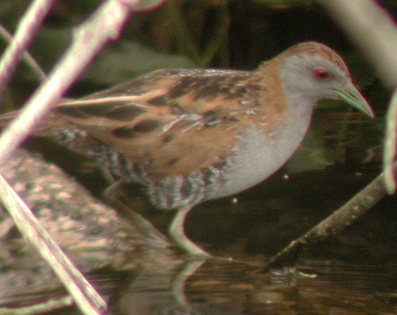 Baillon's Crake (Porzana pusilla) Sherwood Arboretum, SE Queensland, Australia